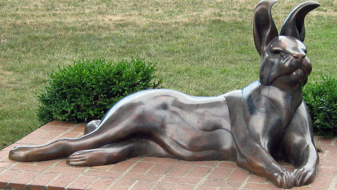 "Rabbit" a sculpture in Maytag Park, Newton, Iowa.